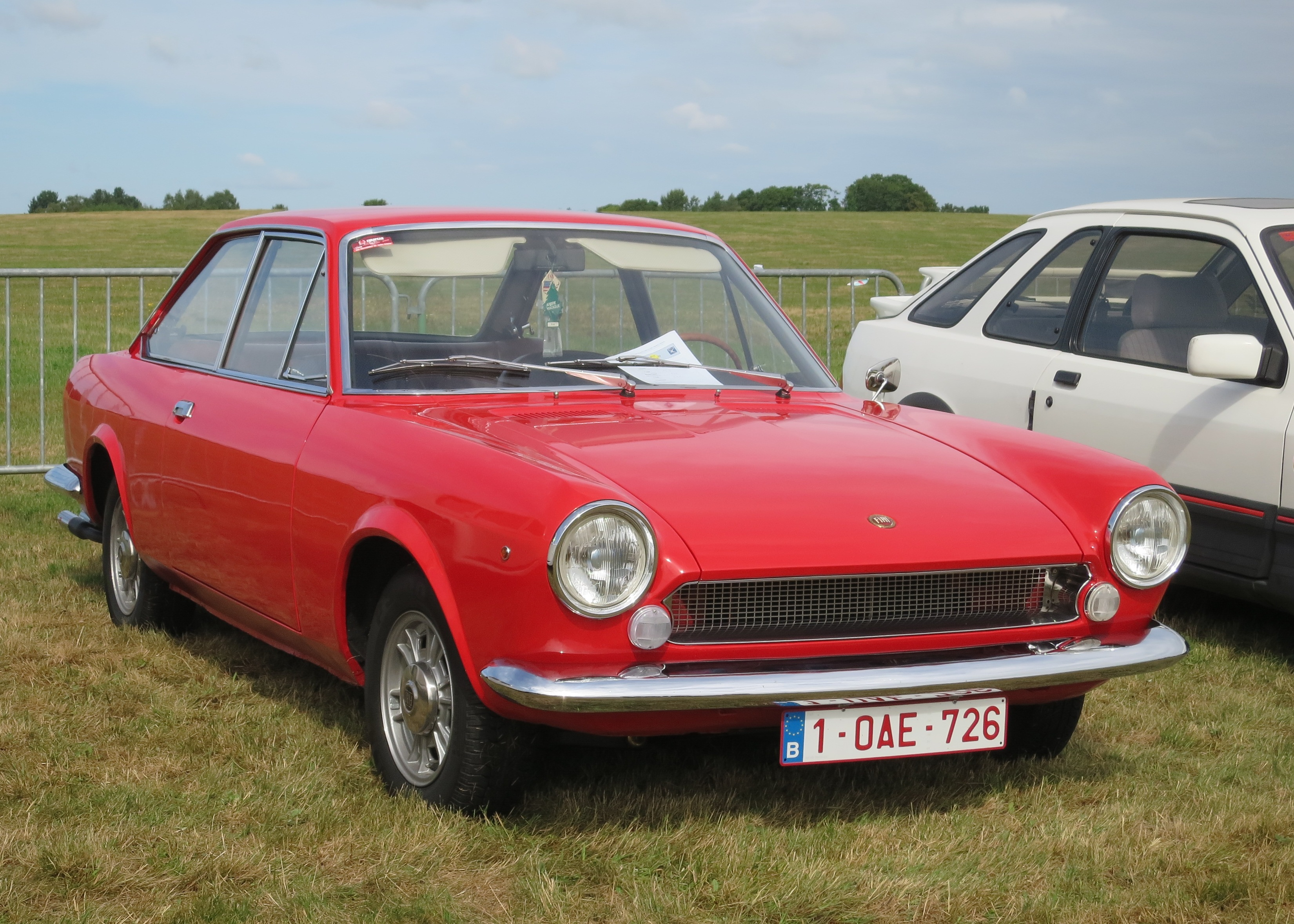 Fiat 124 Sport Coupé Mk1